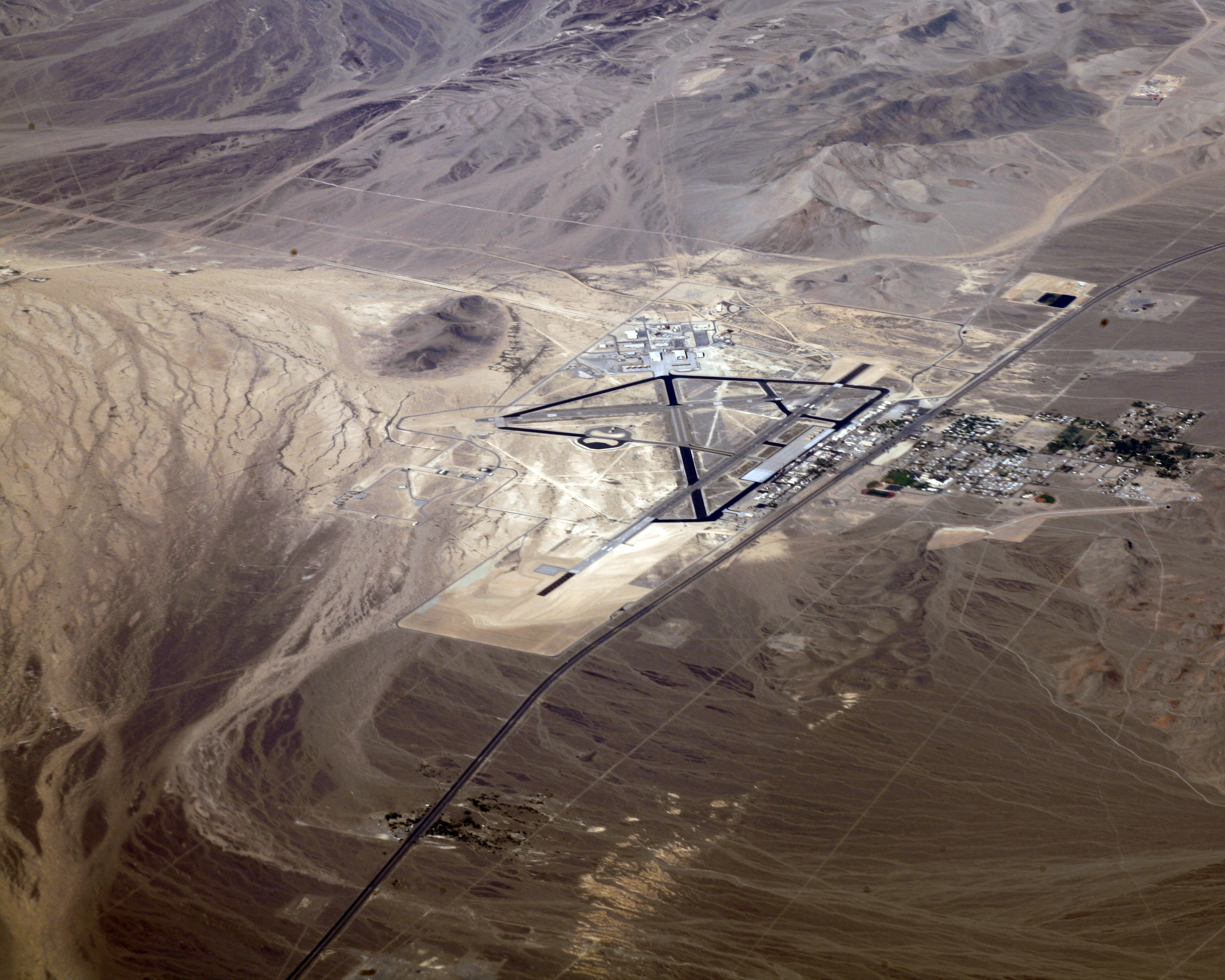 Creech Air Force Base, the site from which drones are flown, shot from a commercial jet bound from Reno to Phoenix.